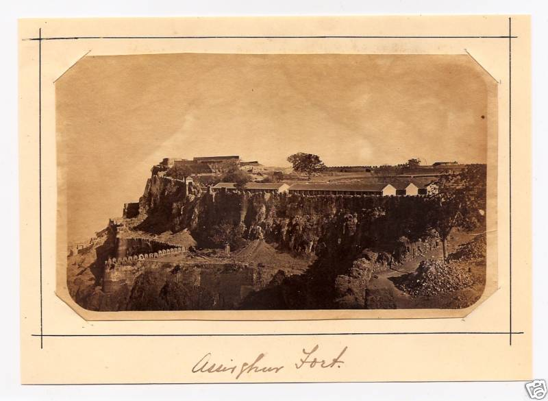 An albumen photo of Asirgarh Fort at Burhanpur